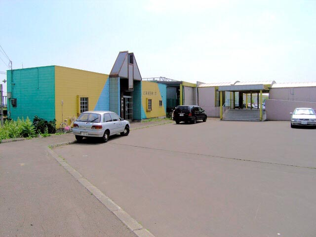 Hokkaido-Iryodaigaku Station Station on Sassho Line, Hokkaido, Japan